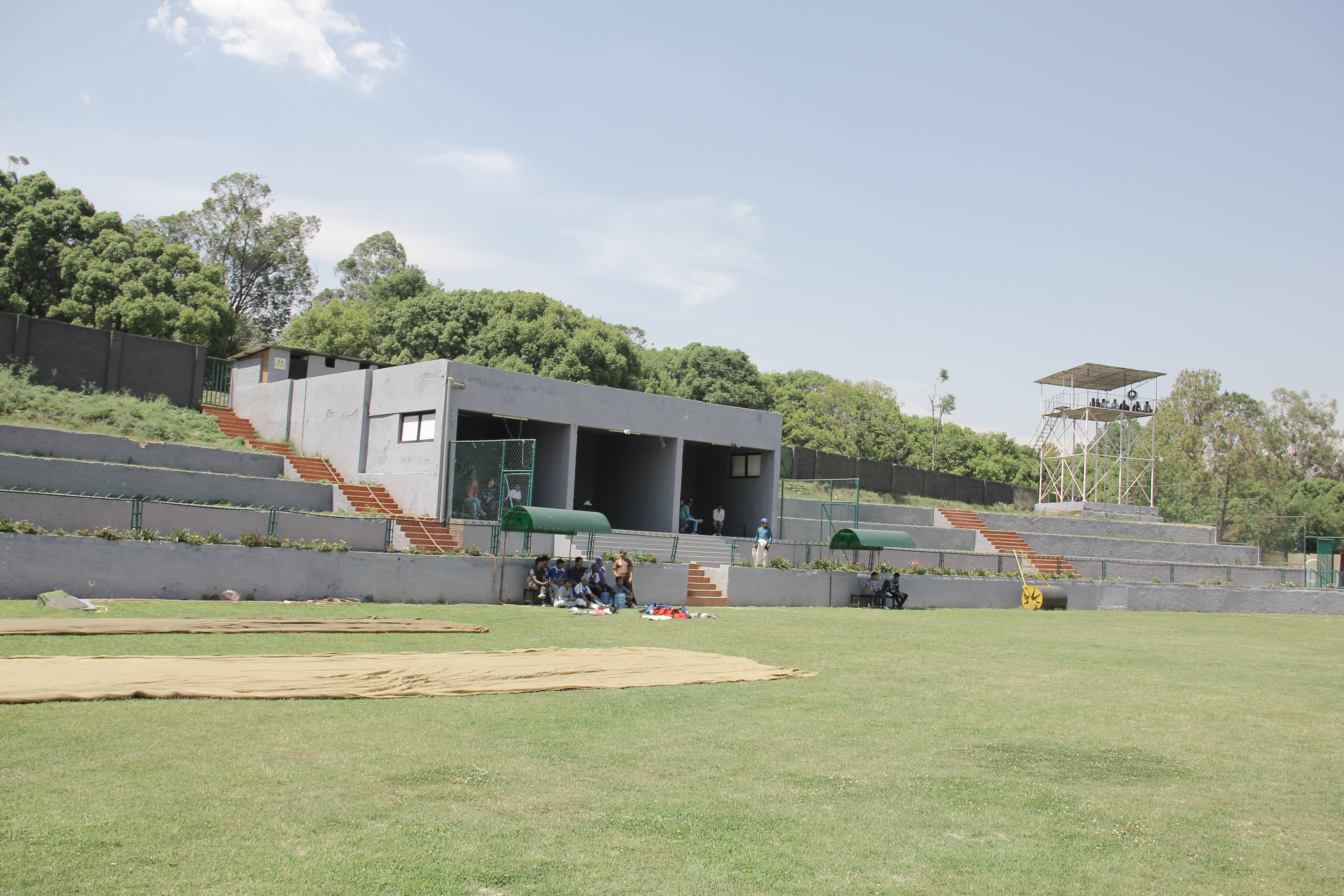 Spectator's rest at Kirtipur Cricket Ground, Kathmandu